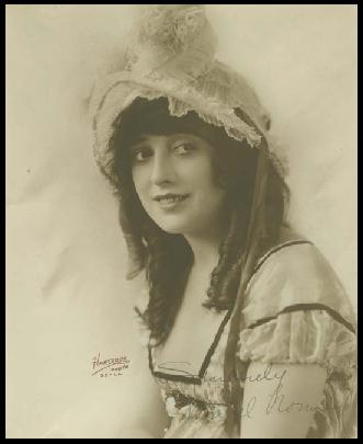 Scarce autographed portrait of Mabel Normand by Hollywood photographer Fred Hartsook (1876-1930).